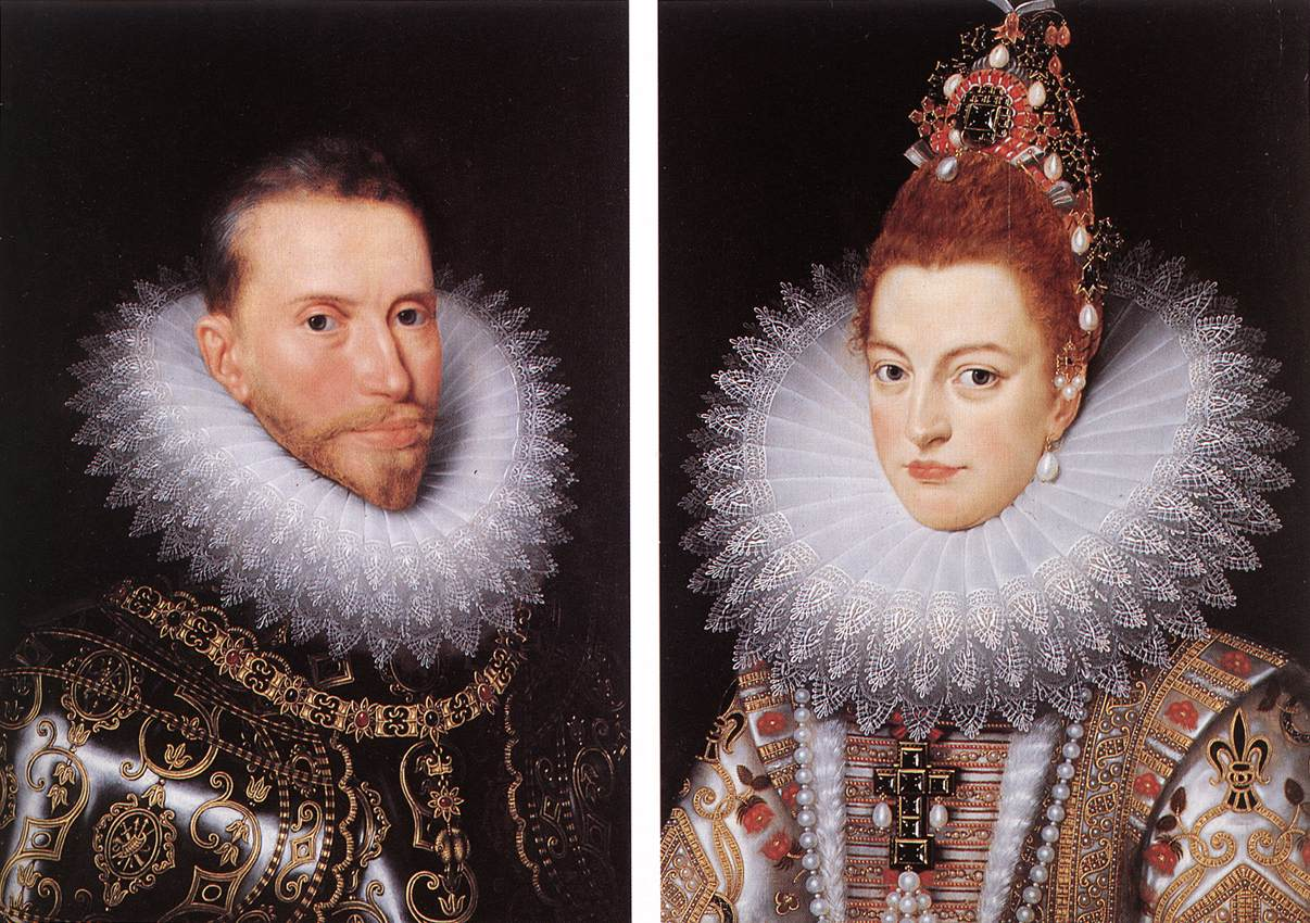 Portraits of Isabella Clara Eugenia of Spain (12 August 1566 – 1 December 1633), Infanta of Spain, Archduchess of Austria, daughter of King Philip II of Spain and Elizabeth of Valois, and of her husband Albert (Albrecht), Archduke of Austria (15 November 1559 - 13 July 1621). They were joint sovereigns of the Seventeen Provinces. The combination of these two panels is a later invention and not original.